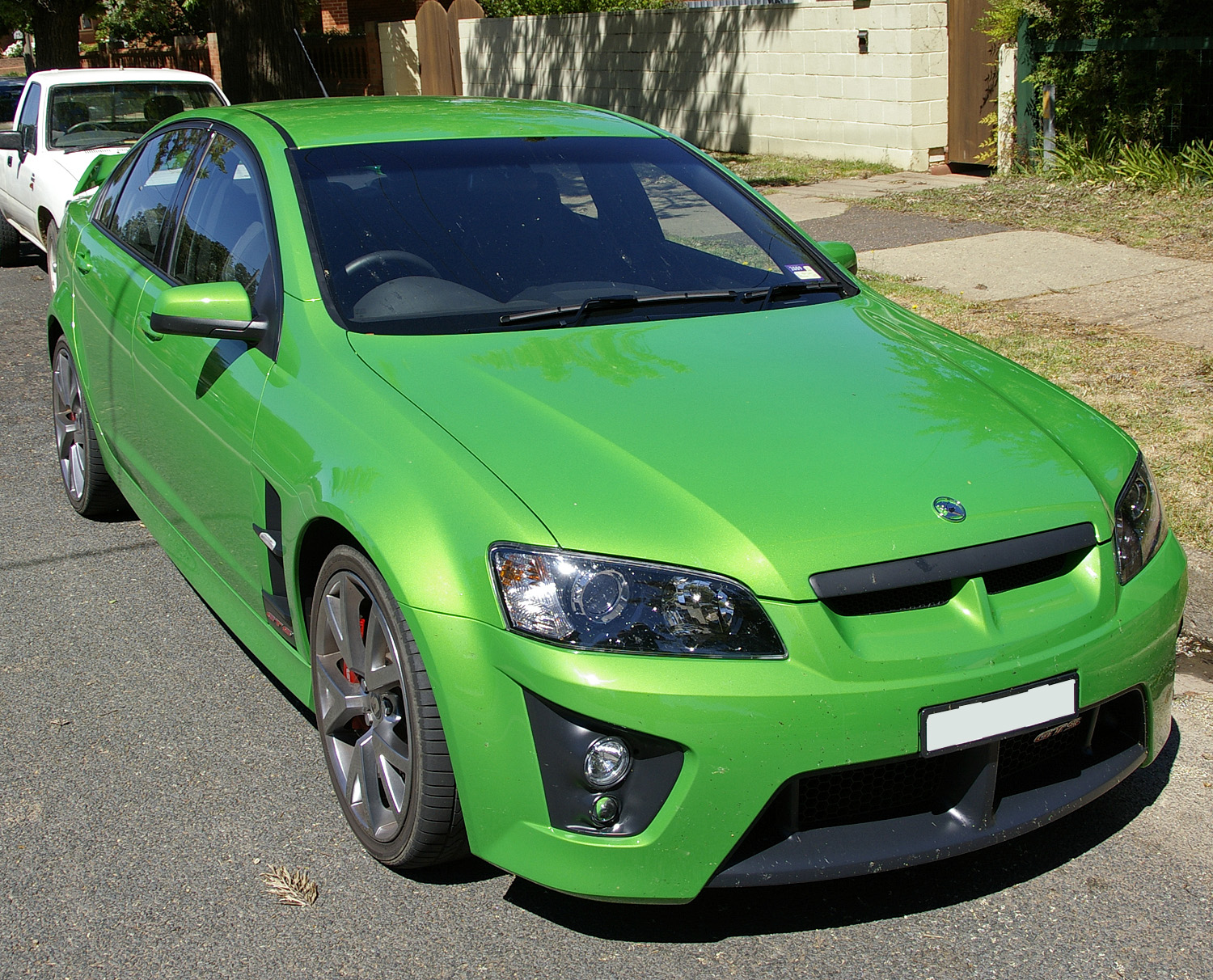 2006–2008 HSV GTS (E Series) 307 sedan.